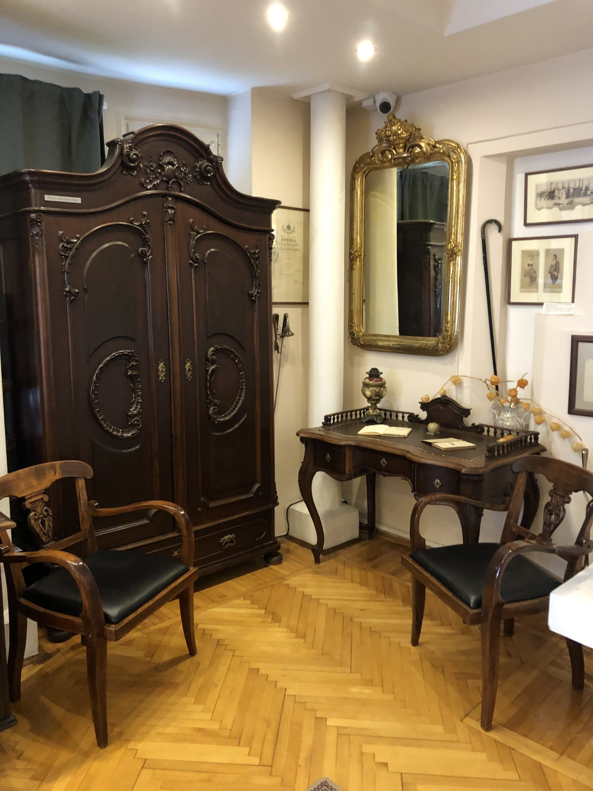 Queen Natalija Obrenović's room in the Society for Culture, Art and International Cooperation Adligat in Belgrade, Serbia. Српски (ћирилица): Соба краљице Наталије Обреновић у Удружењу за уметност, културу и међународну сарадњу „Адлигат” у Београду.